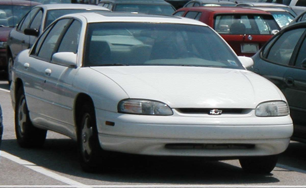 1995-2000 Chevrolet Lumina LTZ photographed in USA.